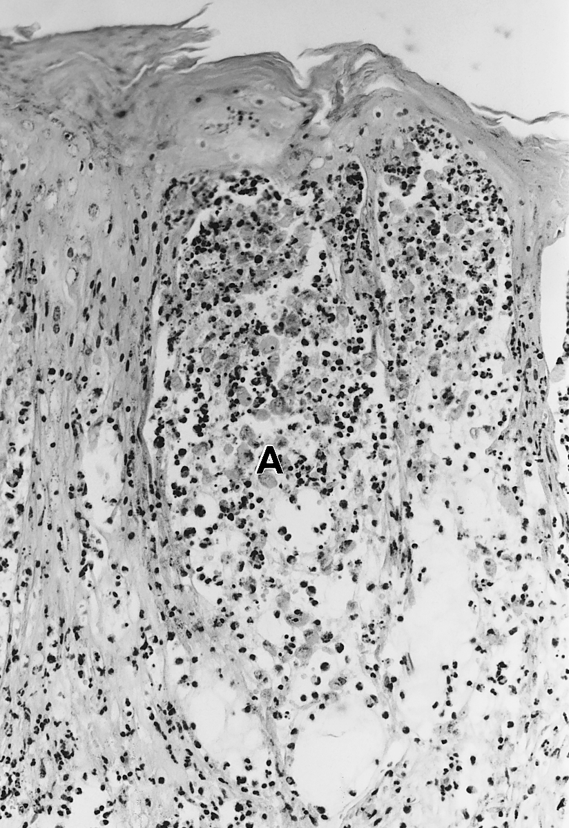 25.5. (A) A multilocular microvesicle of FMD with necrosis of the stratum spinosum (acantholysis) and keratinocytes floating in the vesicular fluid (spongiosa). (B) Severe intercellular edema with separation of the cells of the entire stratum spinosum, giving a reticulated pattern typical of VS; the vesicle forms when the full thickness of epithelium separates from the basal layer (arrow). (Courtesy of D. A. Gregg.)